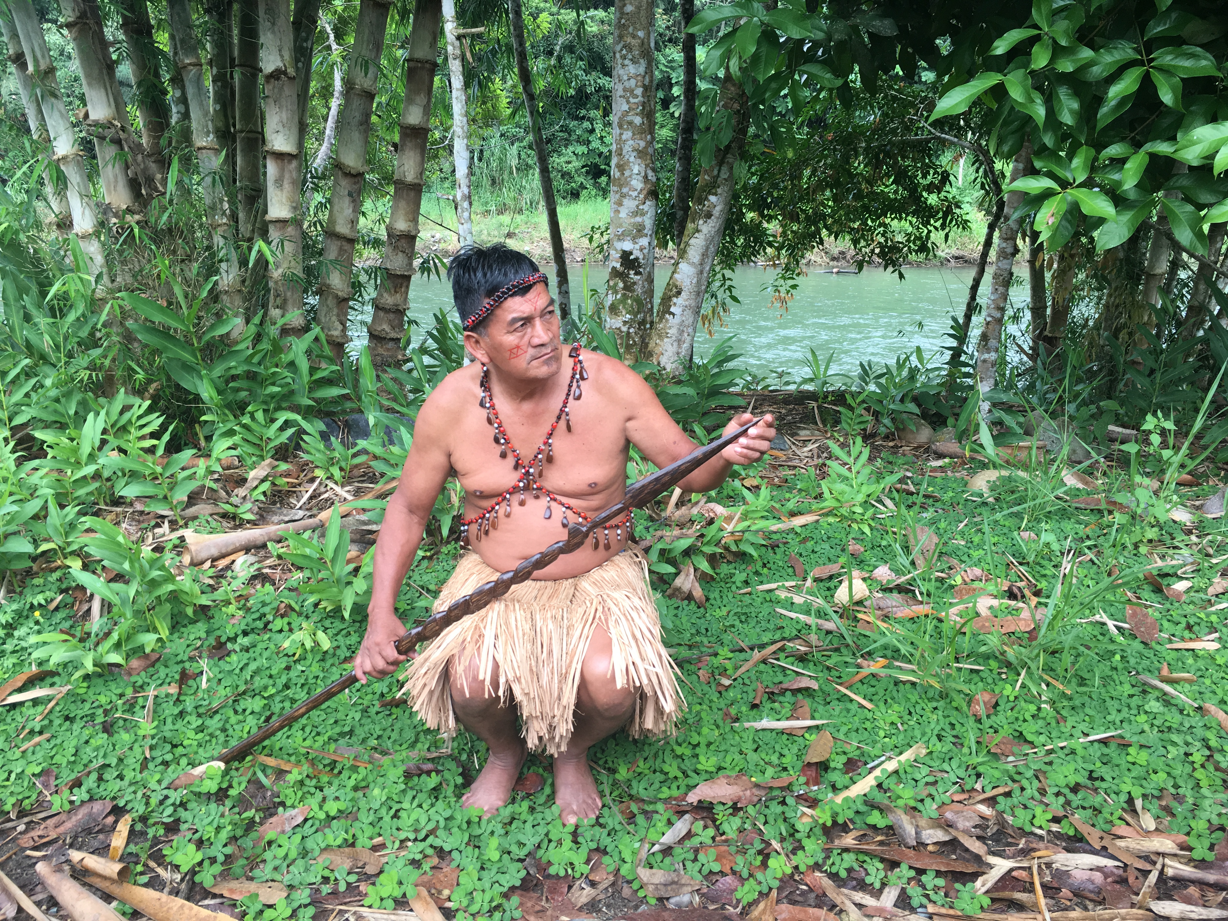 Quijos hunting instrument and clothing in Tena, Ecuador